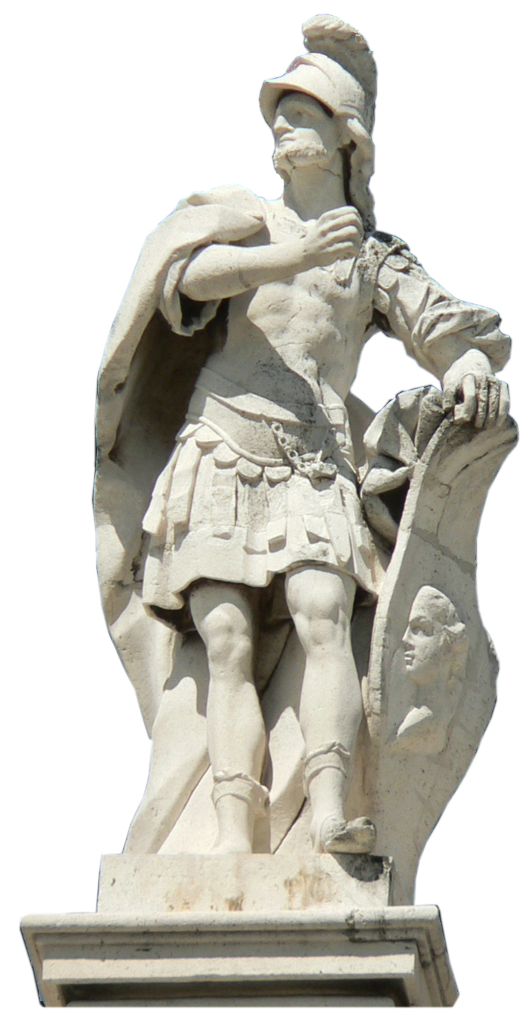 Statue of Teodorico I, Visigoth king, on the balustrade of the Royal Palace of Madrid.